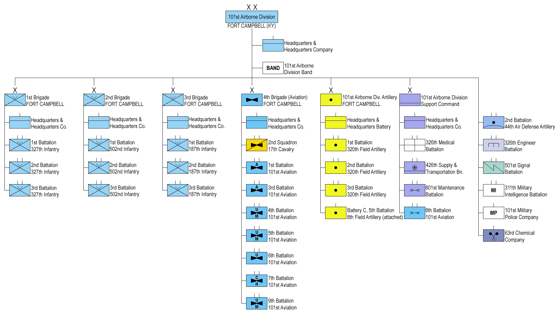 US Army 101st Airborne Division Structure in 1989